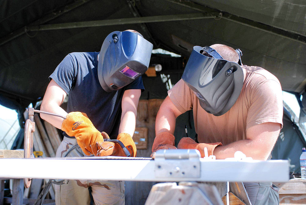 Technical Sgt. Chris Pratt puts the finishing touches on a sun shade outside the Expeditionary Legal Complex Jan. 16 at Guantanamo Bay, Cuba. Sergeant Pratt and members of the Joint Task Force Guantanamo's 474th Expeditionary Civil Engineering Squadron structures team completed several construction projects around Naval Station Guantanamo Bay. JTF Guantanamo conducts safe, humane, legal and transparent care and custody of detained enemy combatants, including those convicted by military commission and those ordered released. (U.S. Army photo/Staff Sgt. Emily J. Russell)